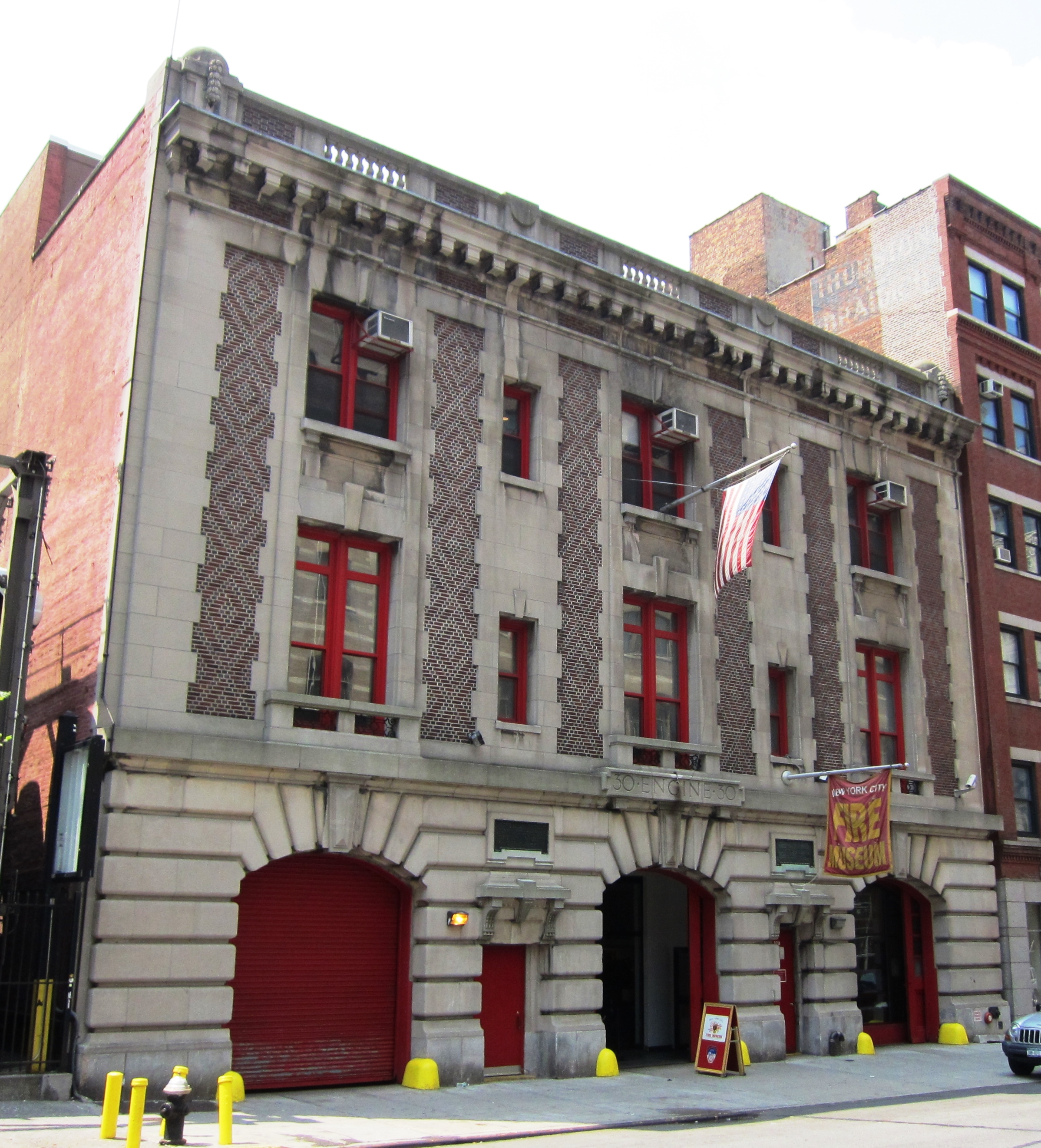 New York City Fire Museum, 278 Spring Street, Manhattan, New York.